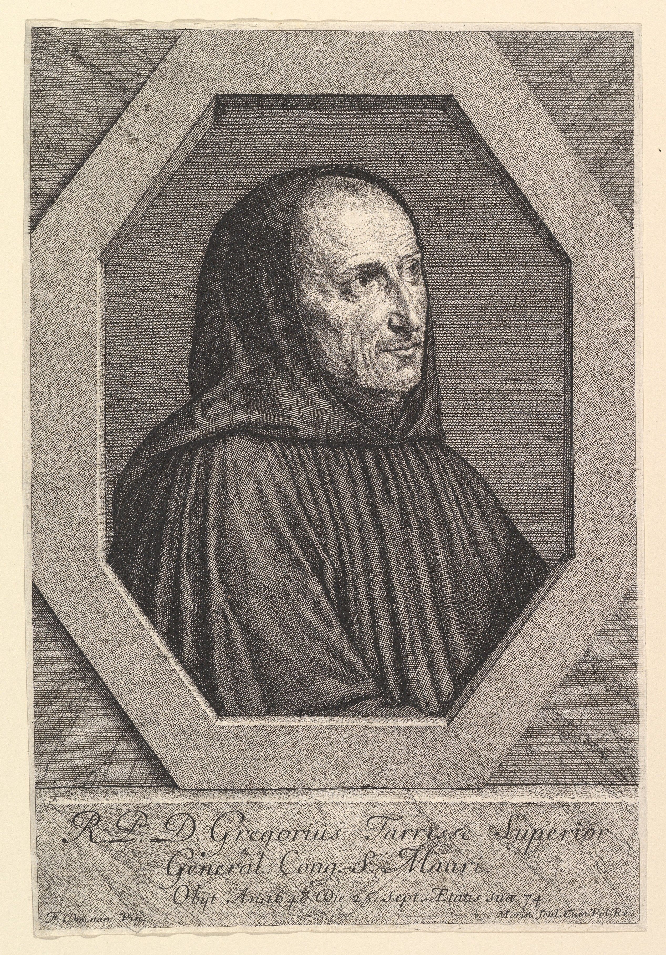 Print; Prints